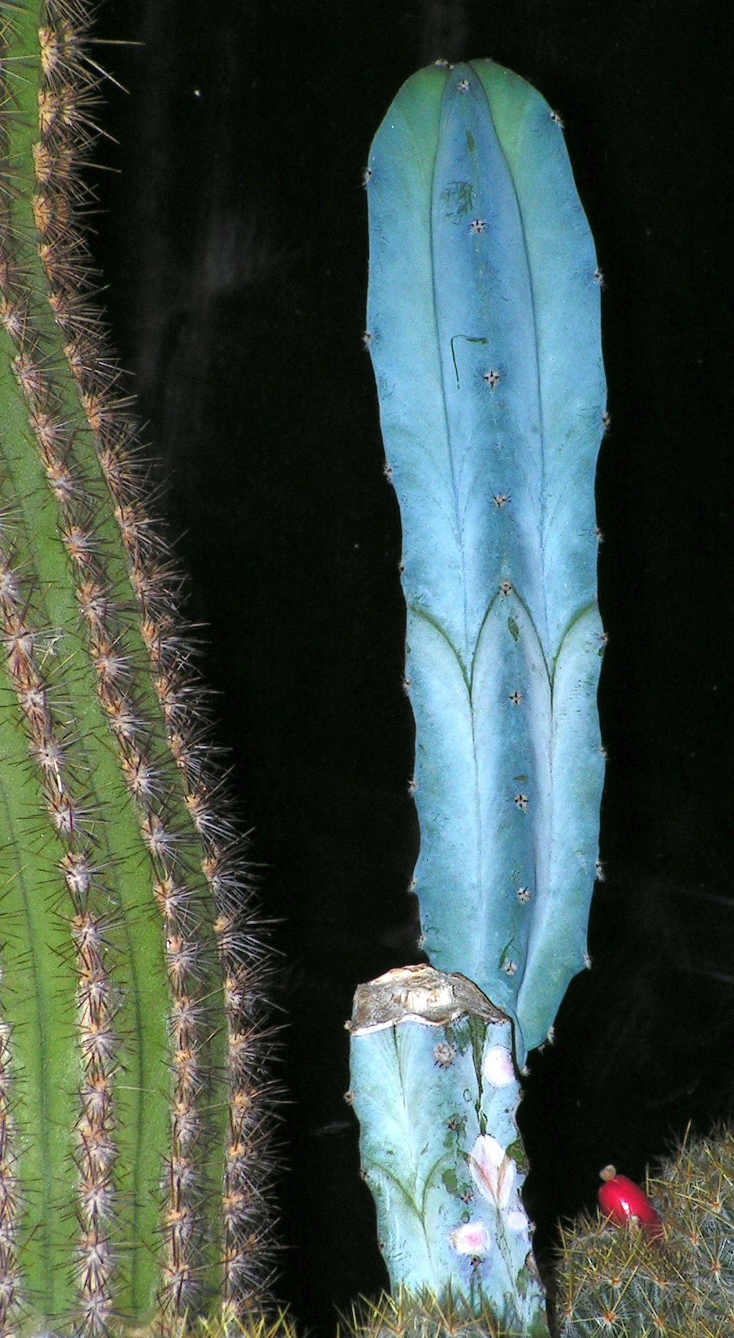 Myrtillocactus geometrizans (right) and Weberbauerocereus sp. (left) as a house plants.